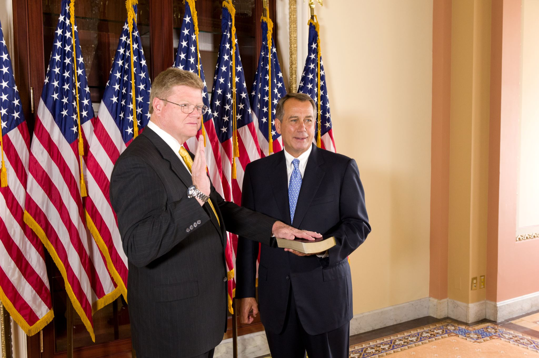 Congressman Mark Amodei (R-NV) being sworn-in by Speaker of the House John Boehner (R-OH).